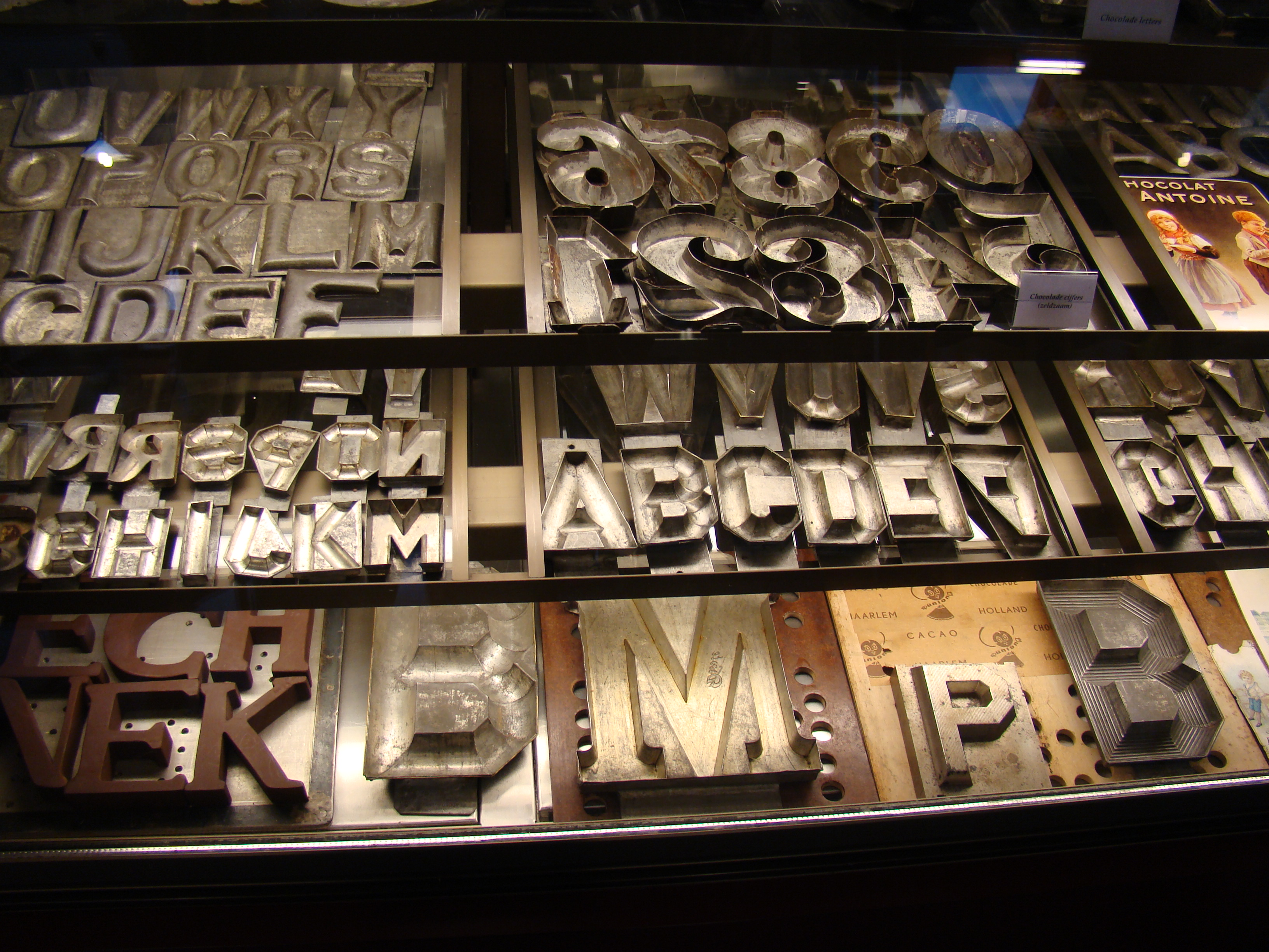 Chocolate characters, dutch tradition around december, st Nicolaus fest. In Bakery museum at Medemblik, Netherlands